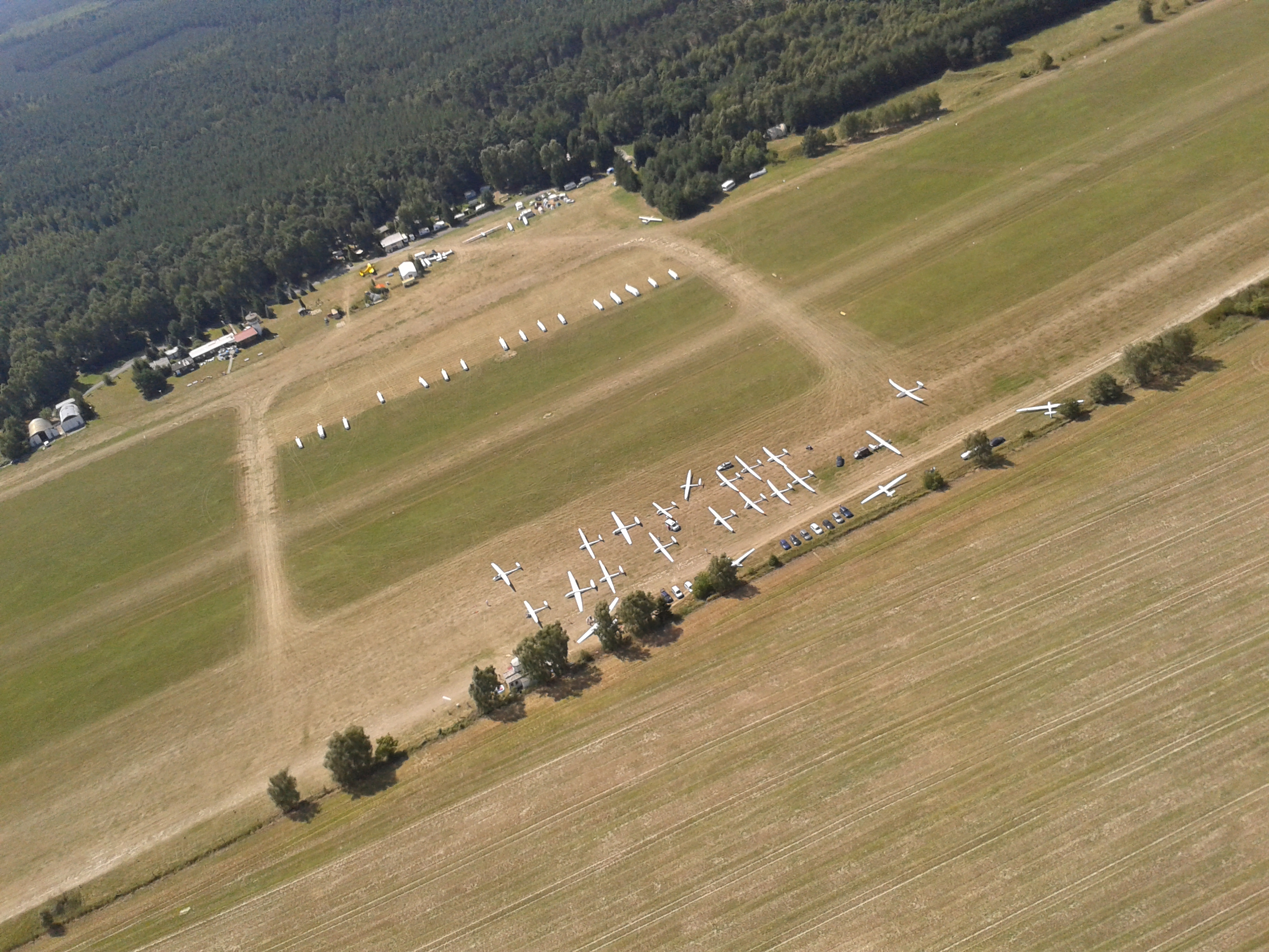 Aerial view over the soaring competition in August 2015 at the Reinsdorf Airfield